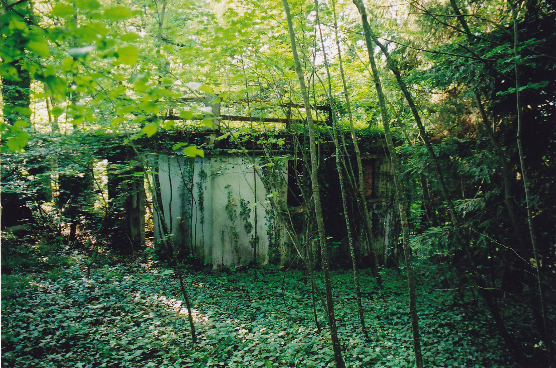 Jochen Peiper's house at Traves, France